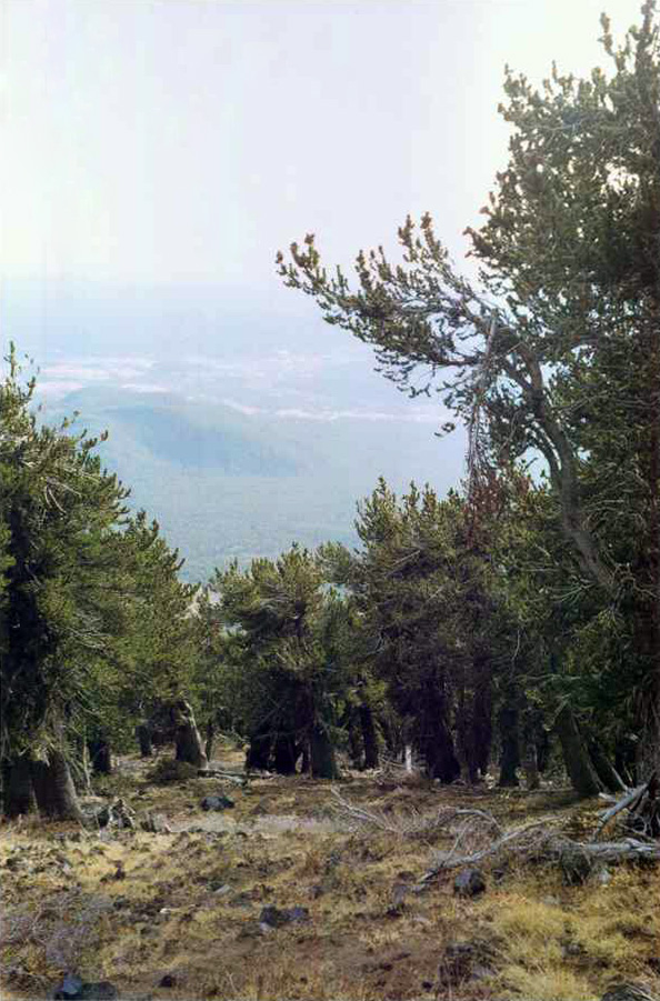 A view down an alley of Rocky Mountain Bristlecone Pine (Pinus aristata) growing at about 3,350 m on the south slope of Fremont Peak in the San Francisco Peaks.